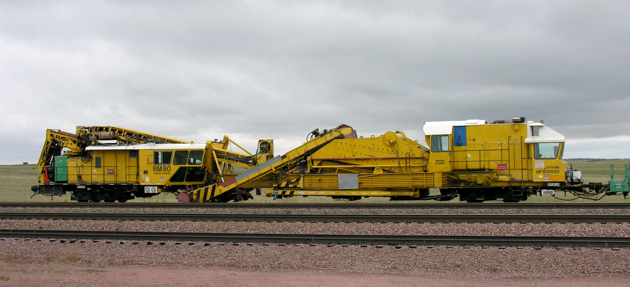 track maintenance vehicle, eastern Wyoming / 2006